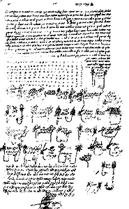 Pinkas from Beth Yaakov Sinagogue in Skopje. Jewish Historical Museum, Belgrade